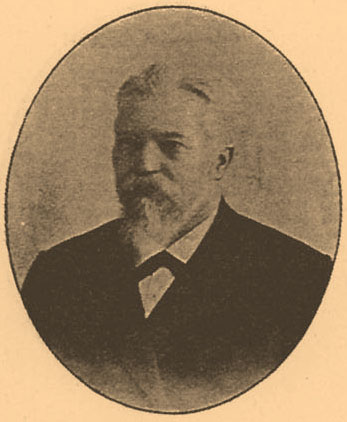 Illustration from Brockhaus and Efron Encyclopedic Dictionary (1890—1907)